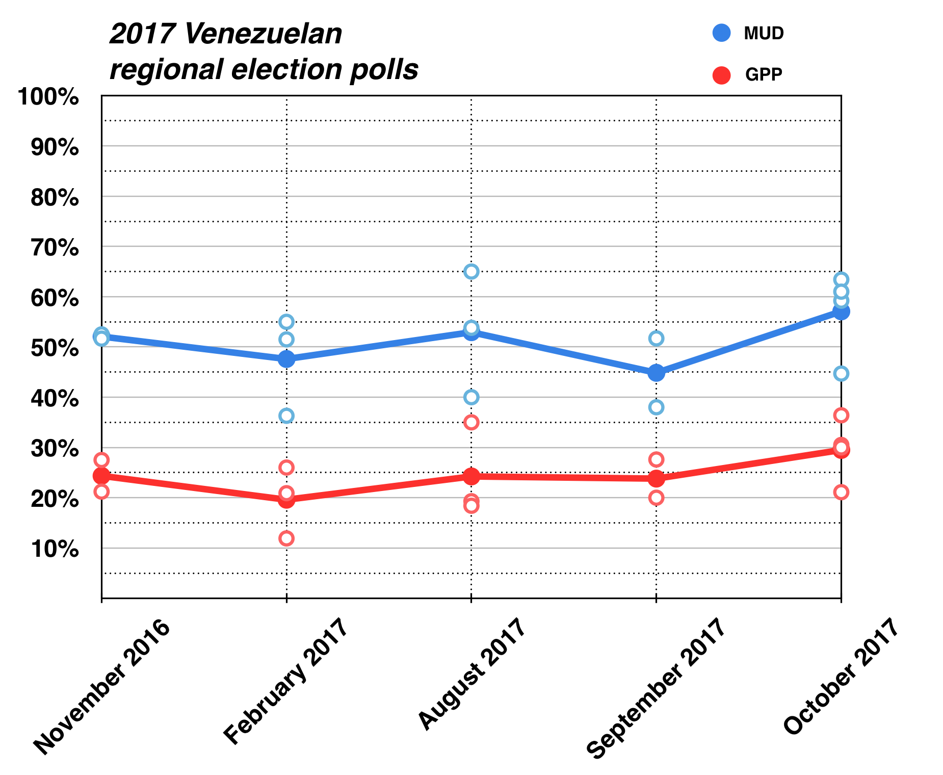 2017 Venezuelan regional election polls